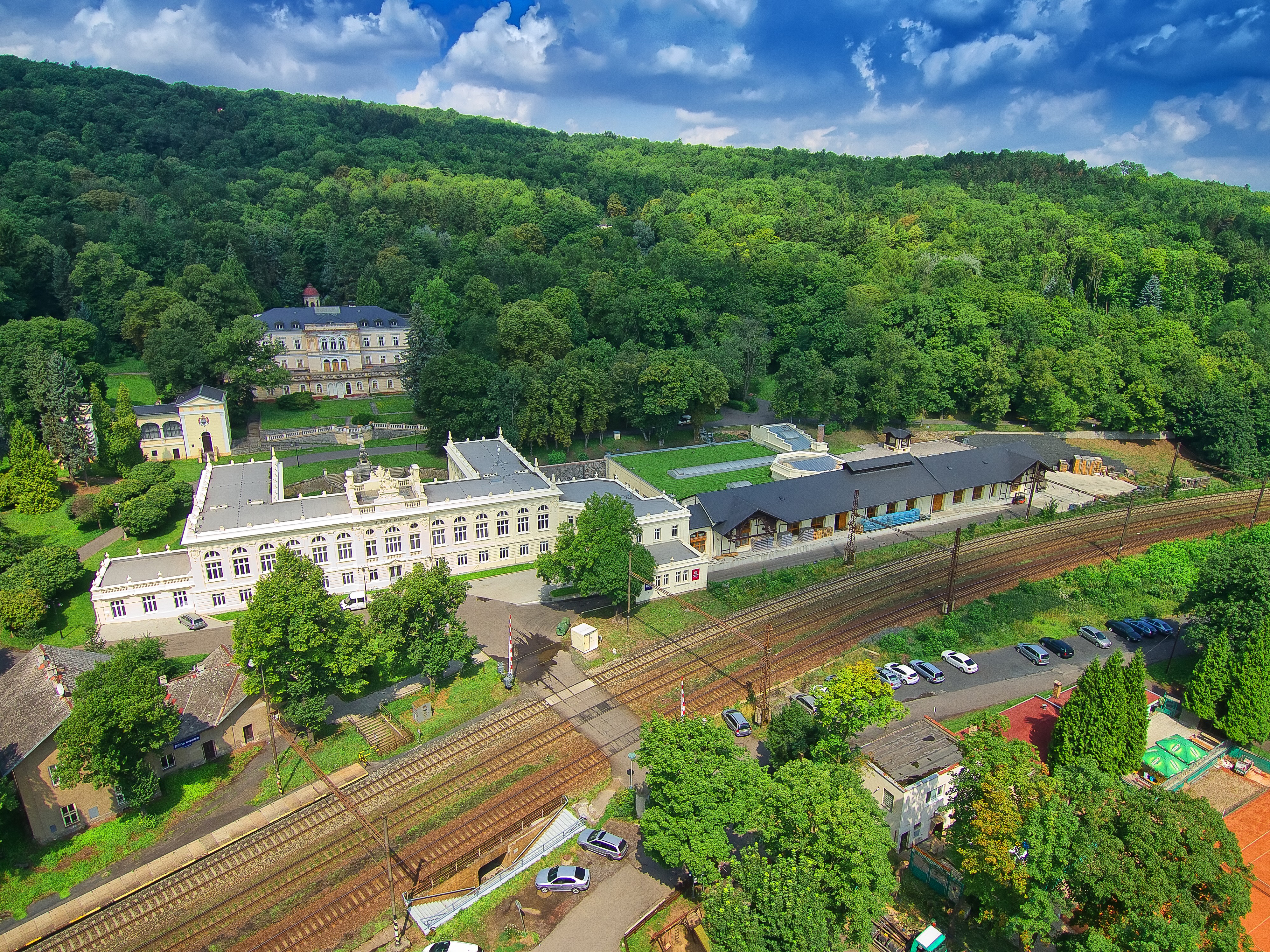 Aerial shot of the reconstructed bottling factory of the Bílinská kyselka curative spring.